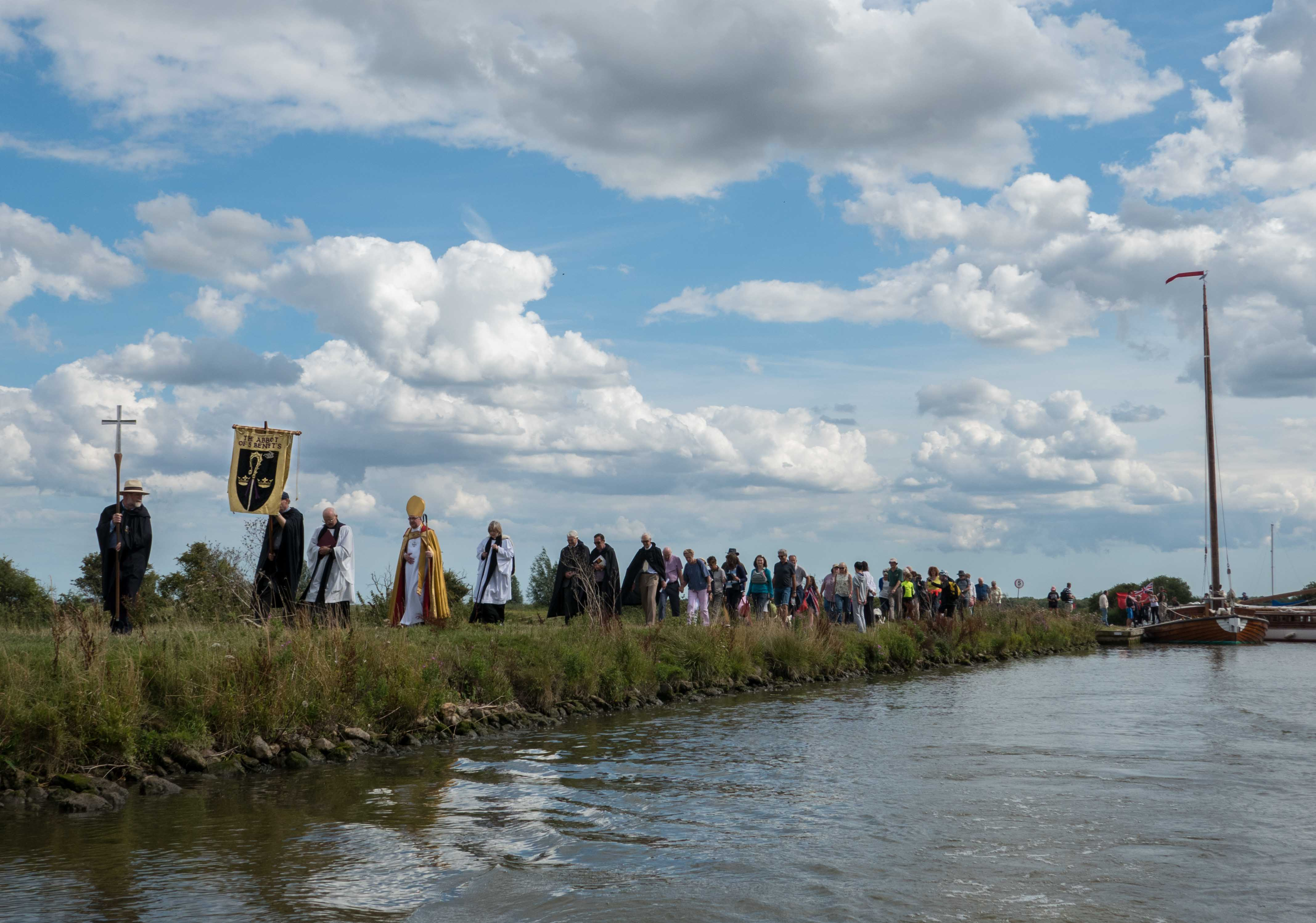 The The Rt Rev. the Lord Bishop of Norwich Graham James disembarks from the wherry Ardea at St Benet's Abbey on 6 August 2017 for the annual service at the monastery ruins on the banks of the River Bure, Norfolk. The wherry is moored at what was the site of a wherryman's pub, The Chequers.